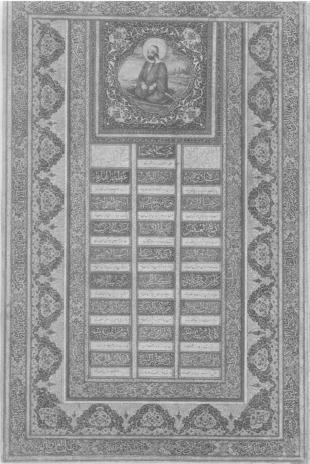 Hilye, 19th century, Iran. from the Nasser Khalili Collection of Islamic Art.